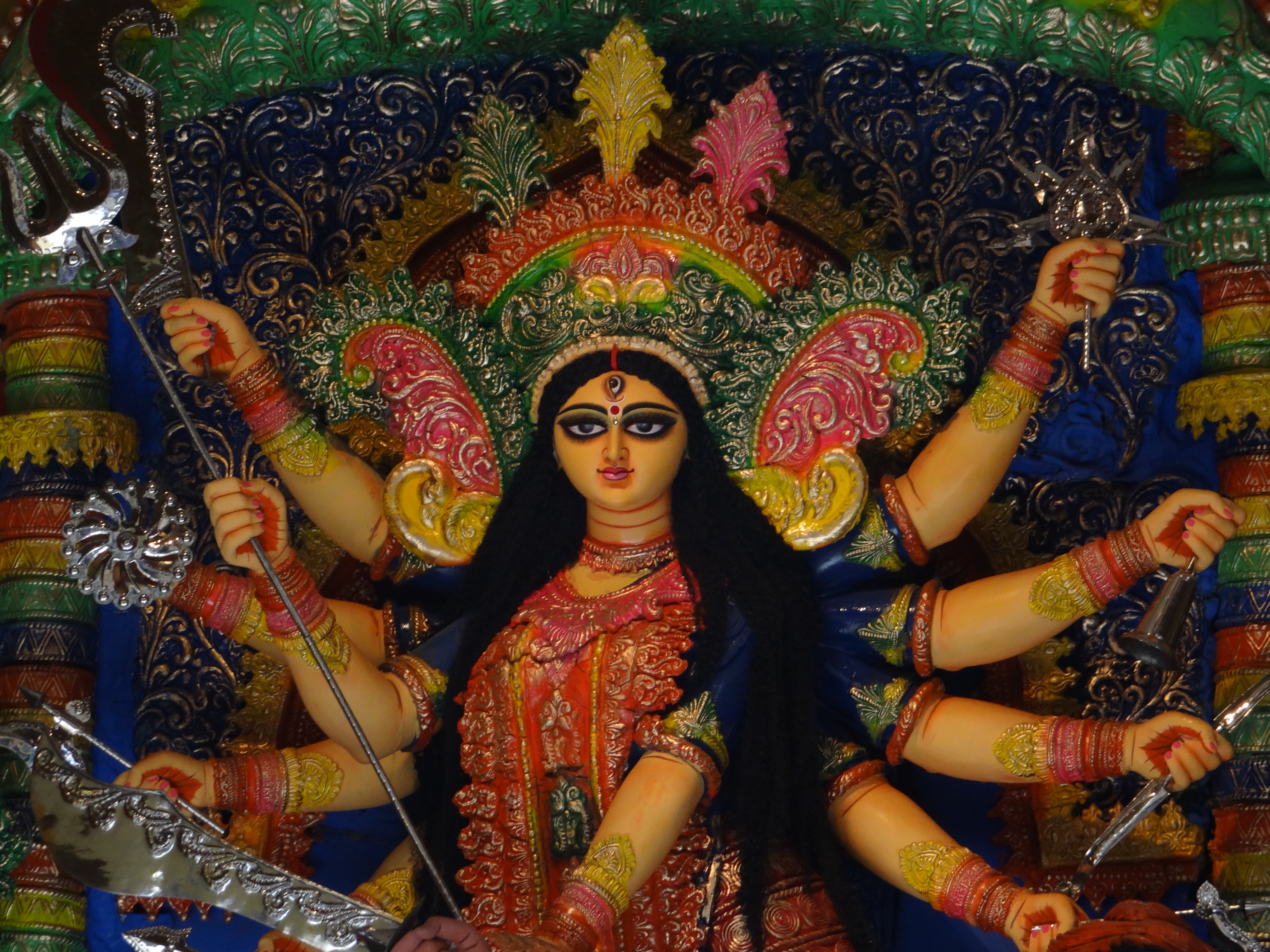 Goddess Durga idol at a Pandal in Kolkata